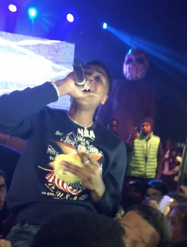 YoungBoy Never Broke Again performing in Detroit, November 2017